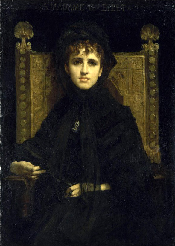 A woman, clothed in black, sits in a high-back wooden chair. She stares directly in front of her. Her left hand rests in her lap while her right lays on the chair's arm rest.